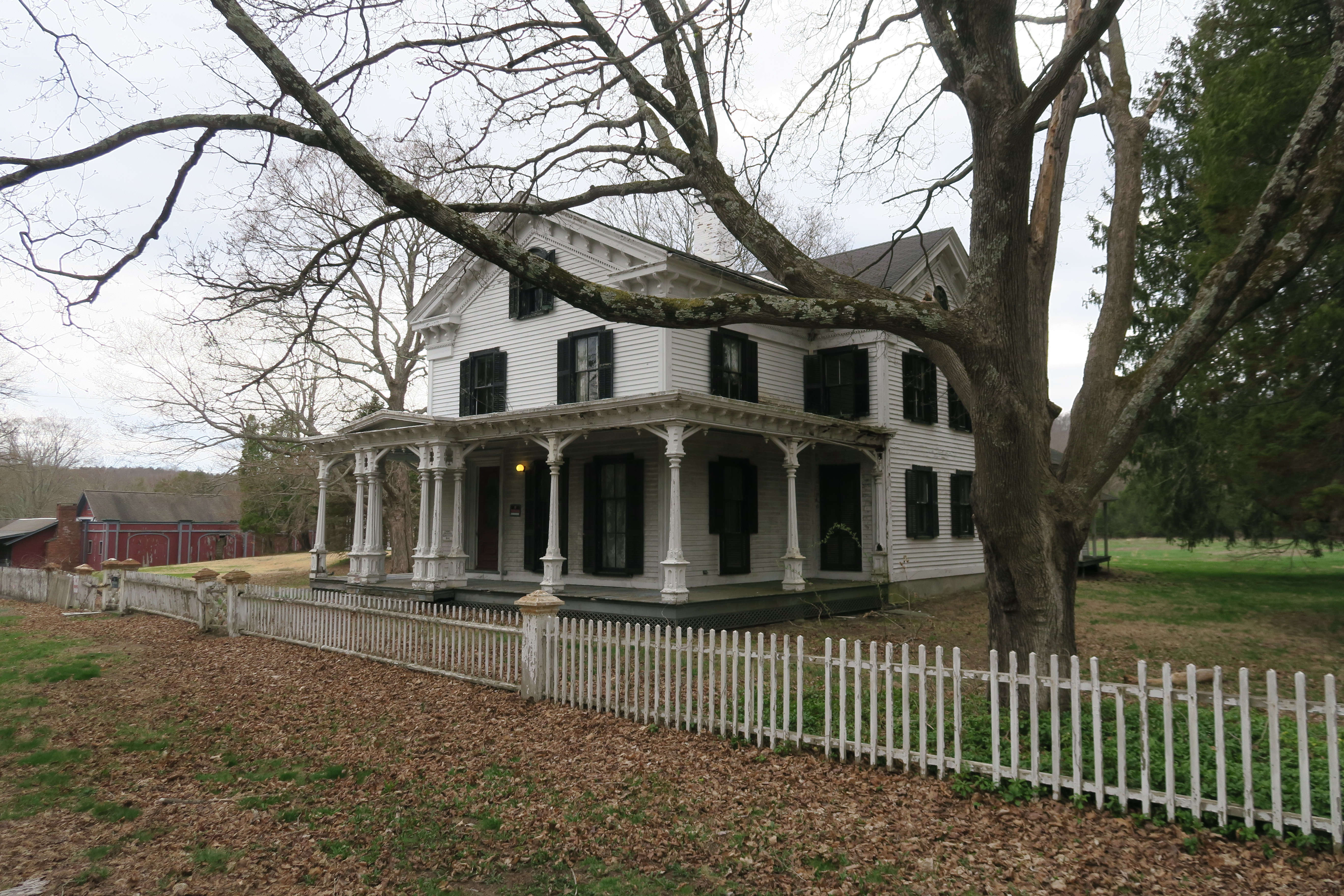 Emory Johnson Homestead, Johnsonville Village Connecticut